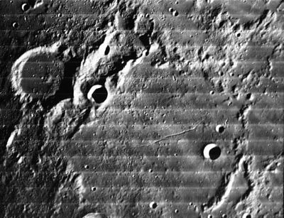 W. Bond (crater)